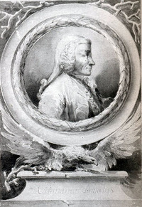 Vitaliano Donati (1717-1762)